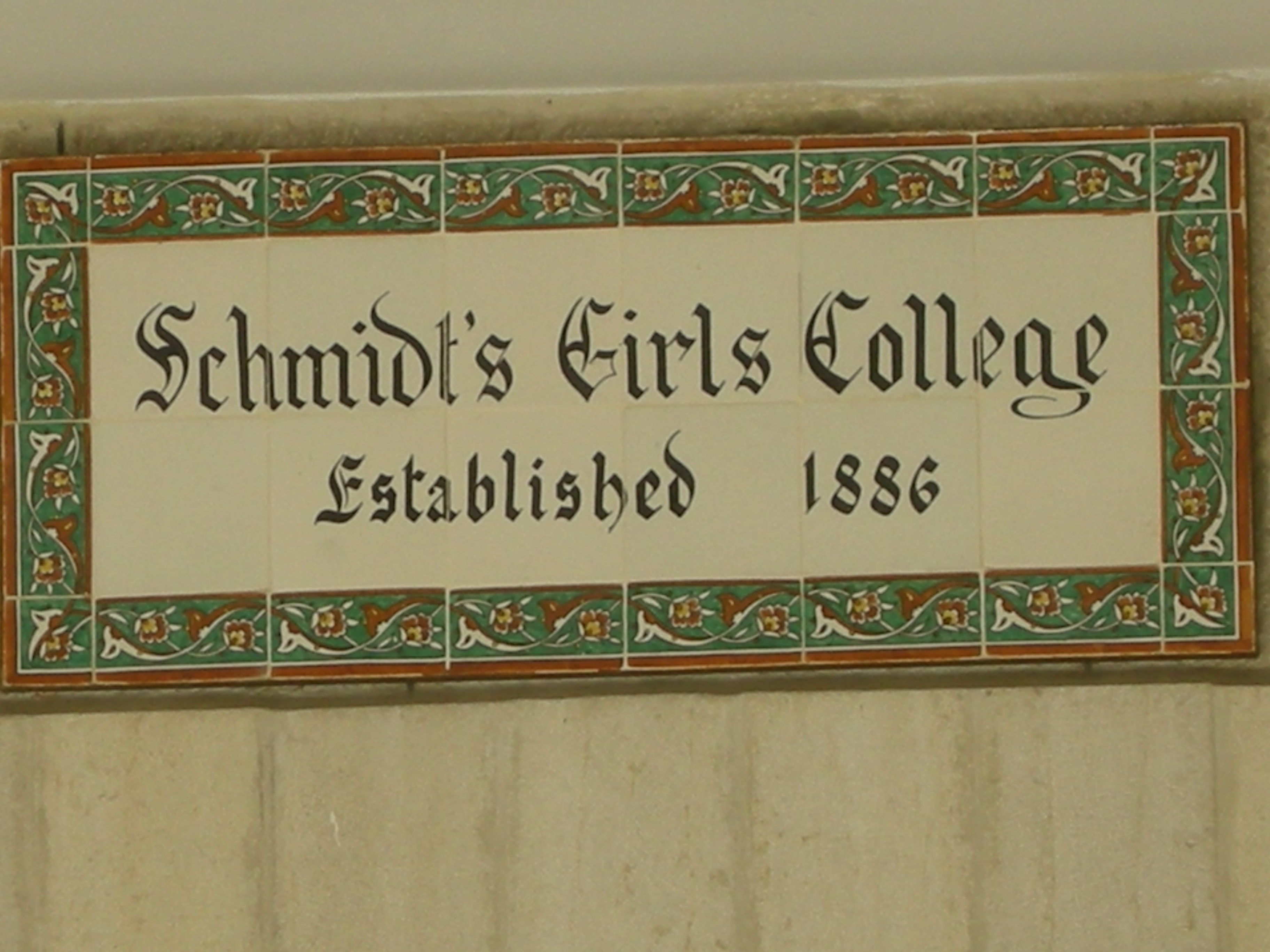 Siur_wikipedia_in__Jerusalem